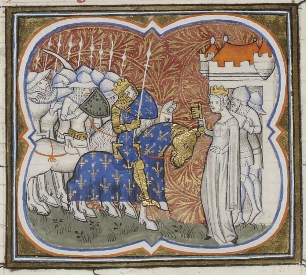 Henri I of France, Constance of Arles.